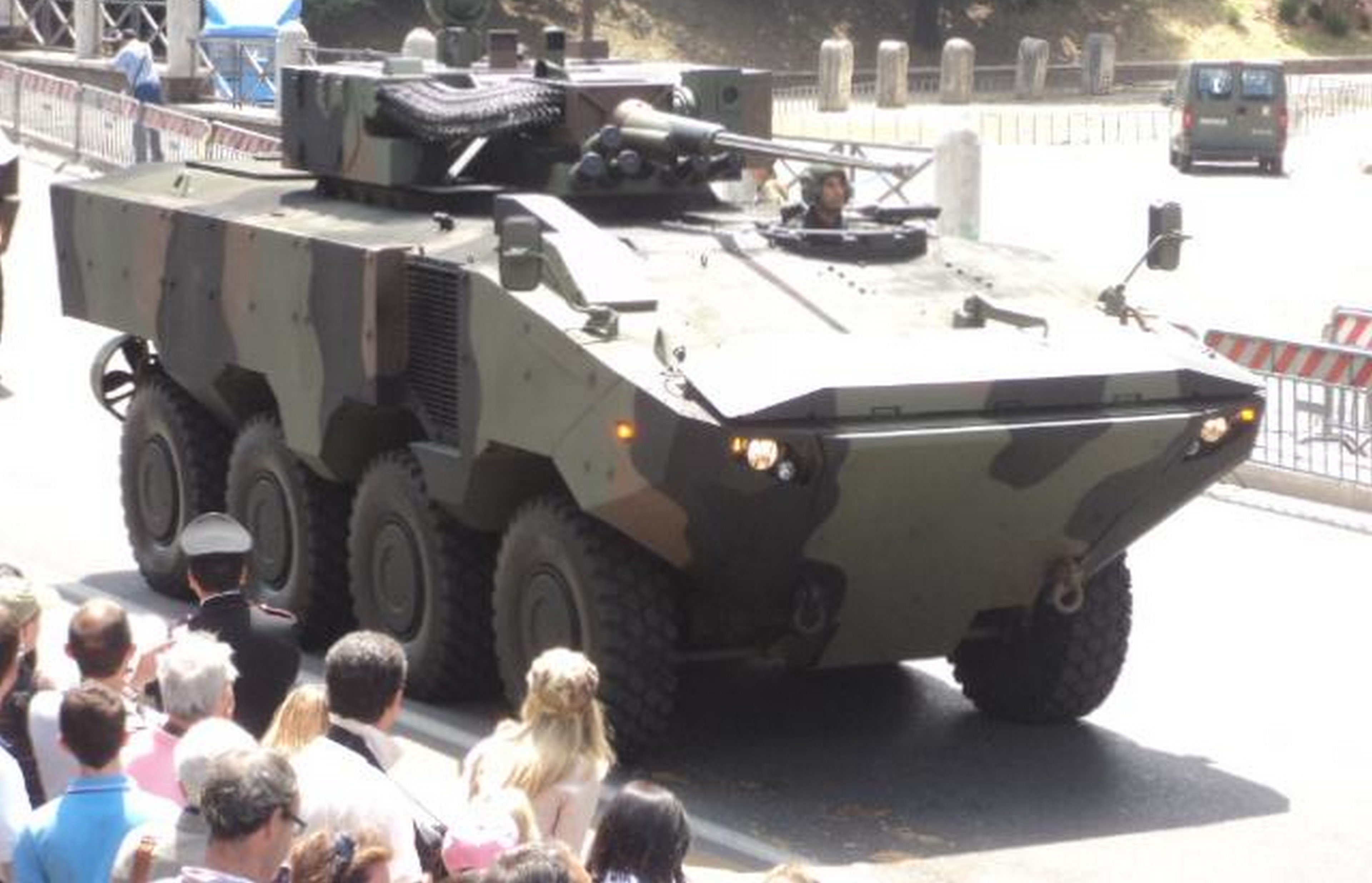 Army parade of Italy 2011